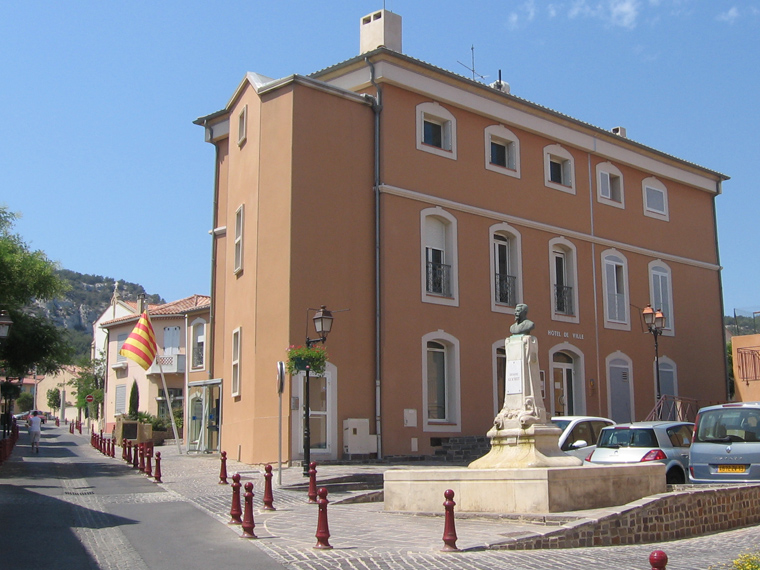 Town hall of Châteauneuf-les-Martigues (Bouches-du-Rhône, France)